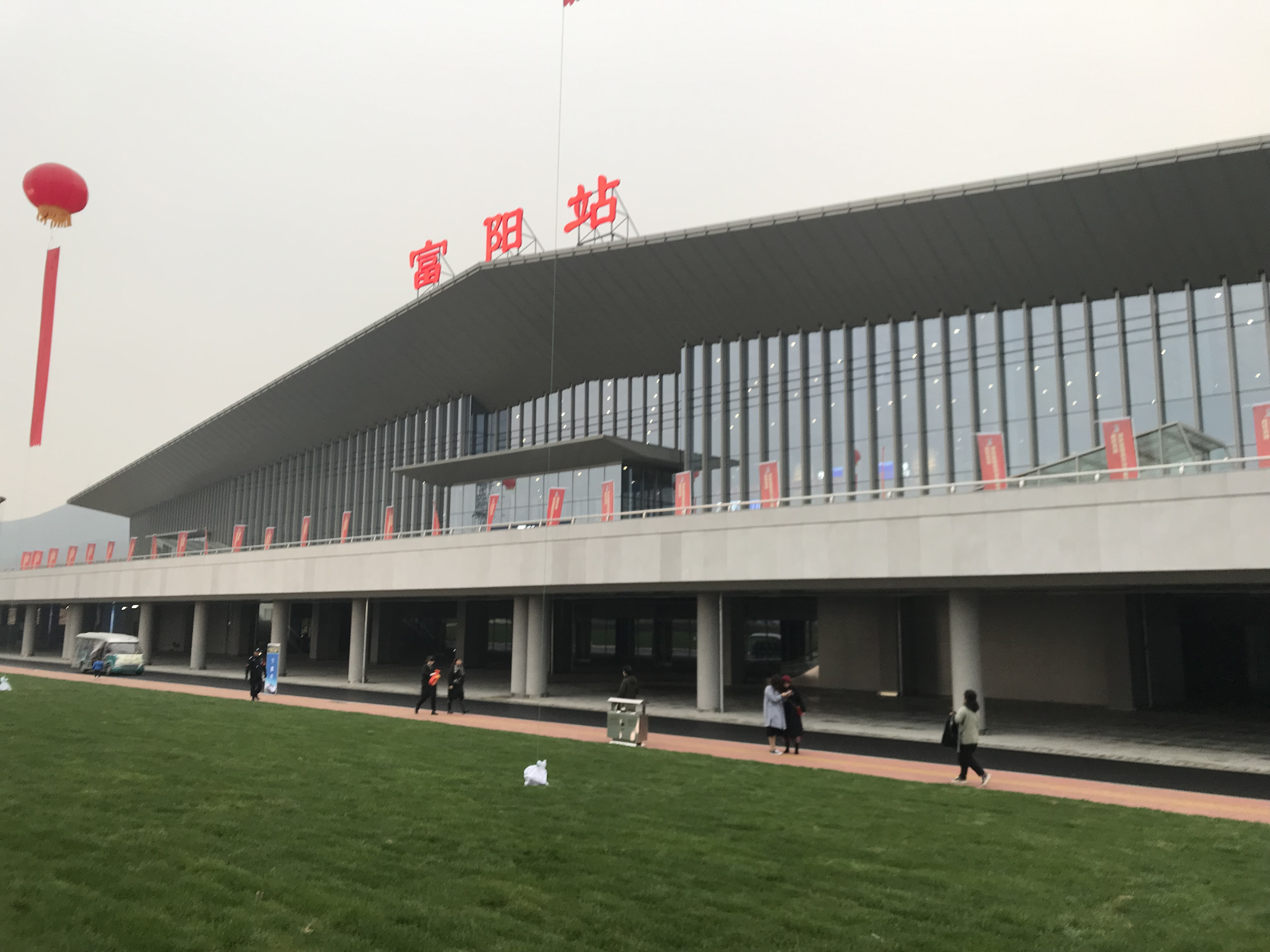 201812 Fuyang Railway Station Building